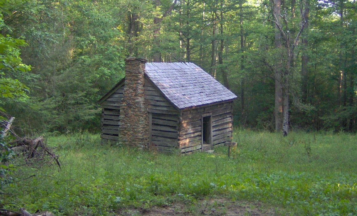 The Baxter Cabin (sometimes called the Jenkins Cabin after Chandler Jenkins, its last owner), located just off the Maddron Bald Trail in the Great Smoky Mountains National Park of Cocke County, Tennessee, in the southeastern United States. The cabin was built in 1889 by Willis Baxter as a wedding gift for his son.